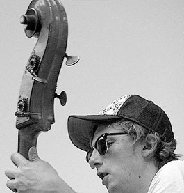 Anders Christensen